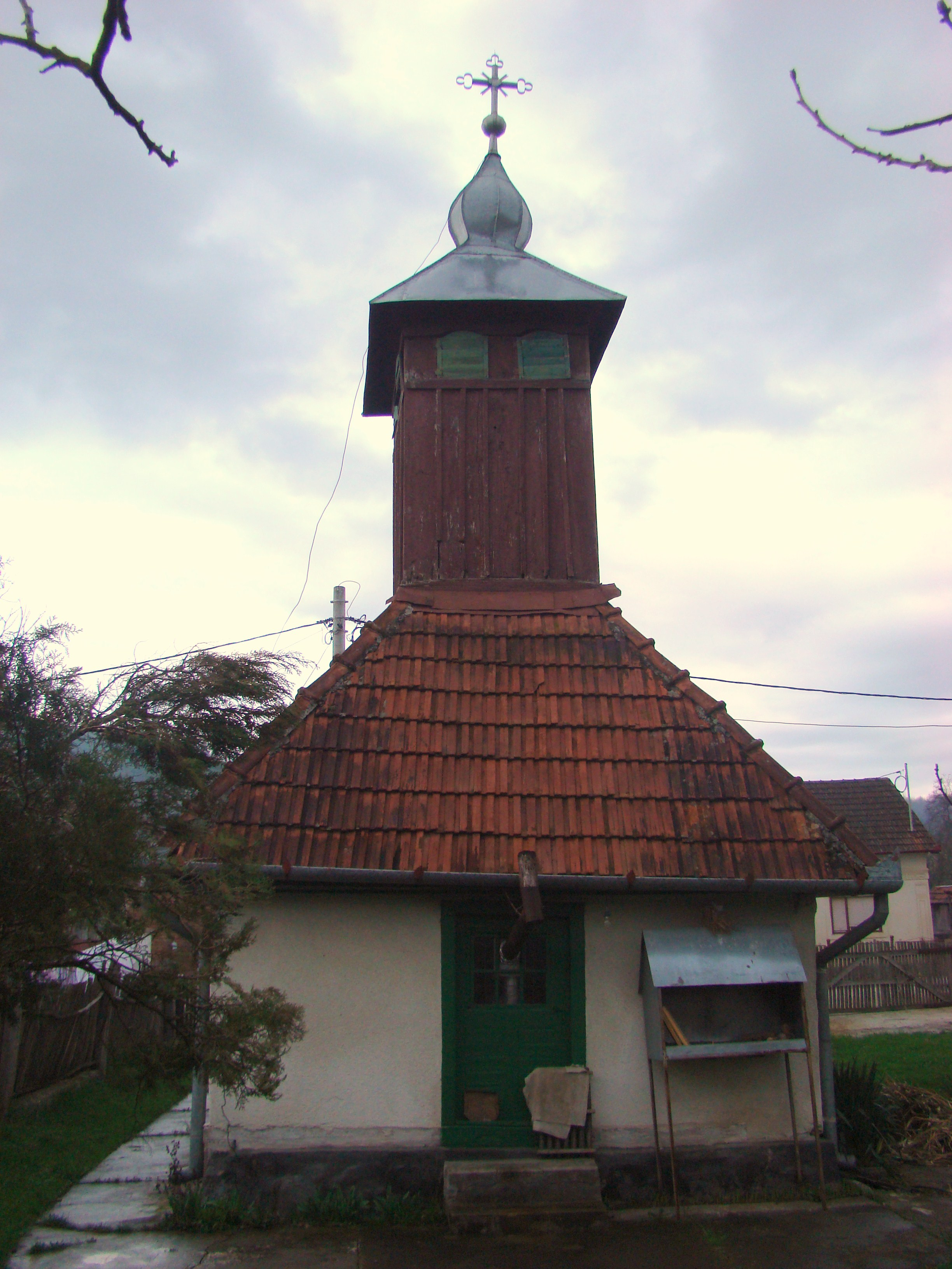 Wooden greek-catholic church in Julița, Arad county, Romania